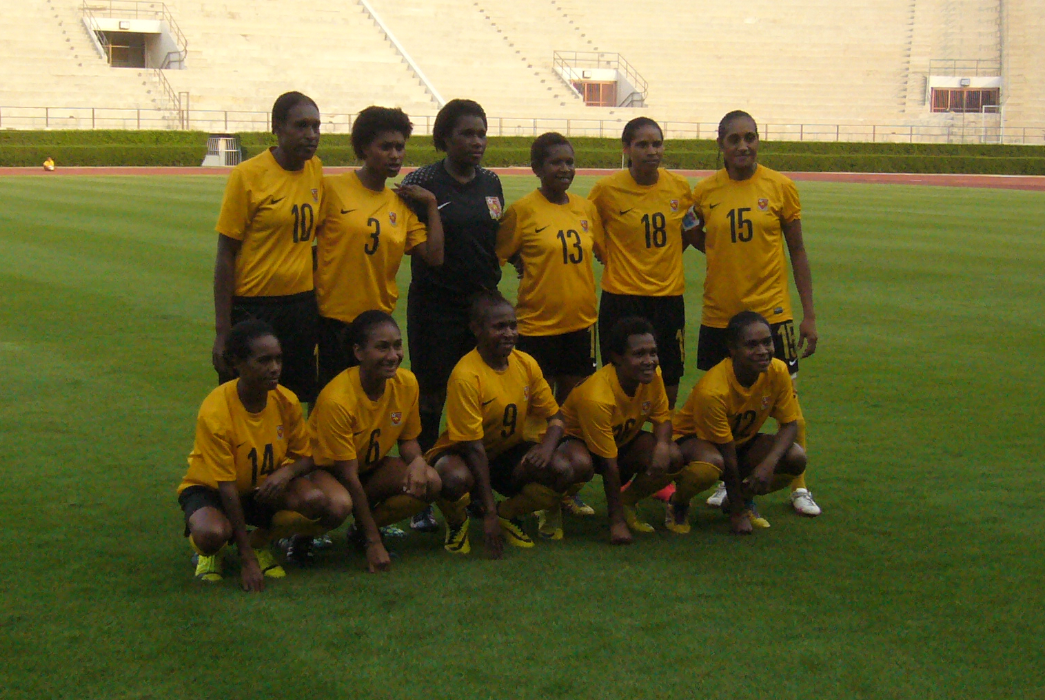 PNG women's national football team in March 2015